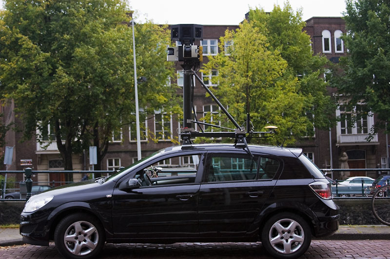 Google Street View Car in Jordaan, Amsterdam, Netherlands.